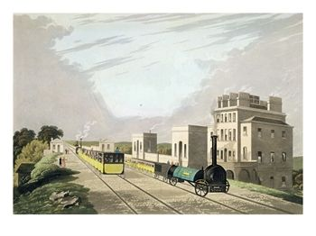 Charles Calvert of Manchester - View of the Manchester and Liverpool Railway Taken at Newton 1825